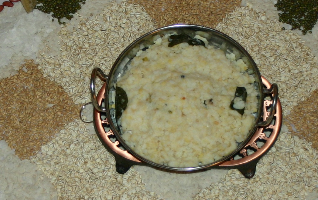 Pongal placed on grains kolum.